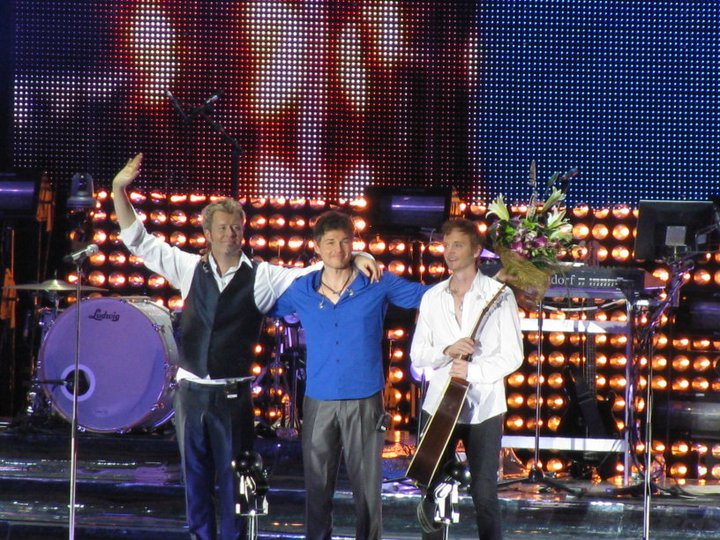 a-ha after "Take on Me"